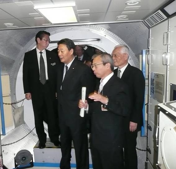 Banri Kaieda, Minister of State for Science and Technology Policy, inspected Tsukuba Space Center, Japan Aerospace Exploration Agency in Tsukuba City, Ibaraki Prefecture on October 10, 2010.